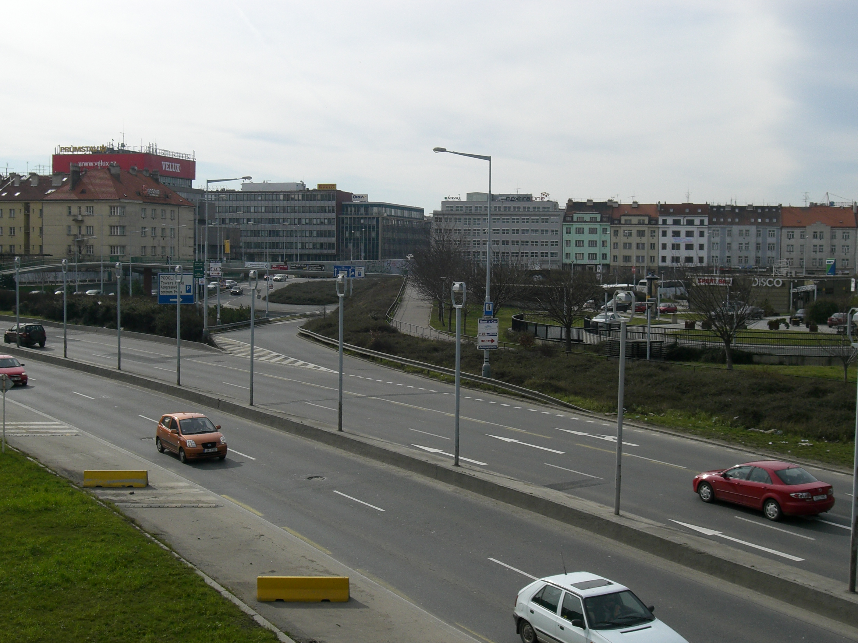 Pankrác squere near Congress center in Prague, March 2007